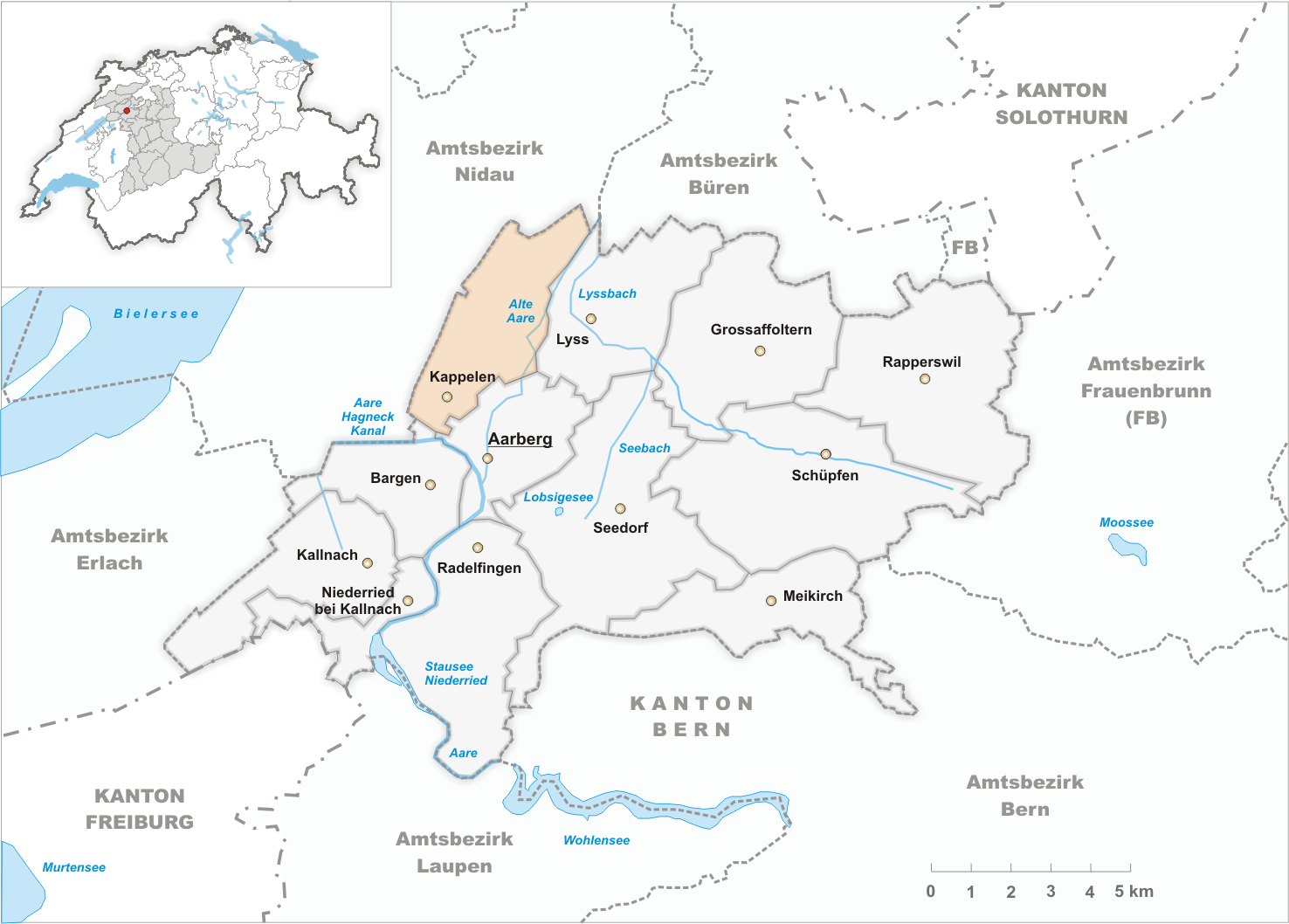 Municipality Kappelen